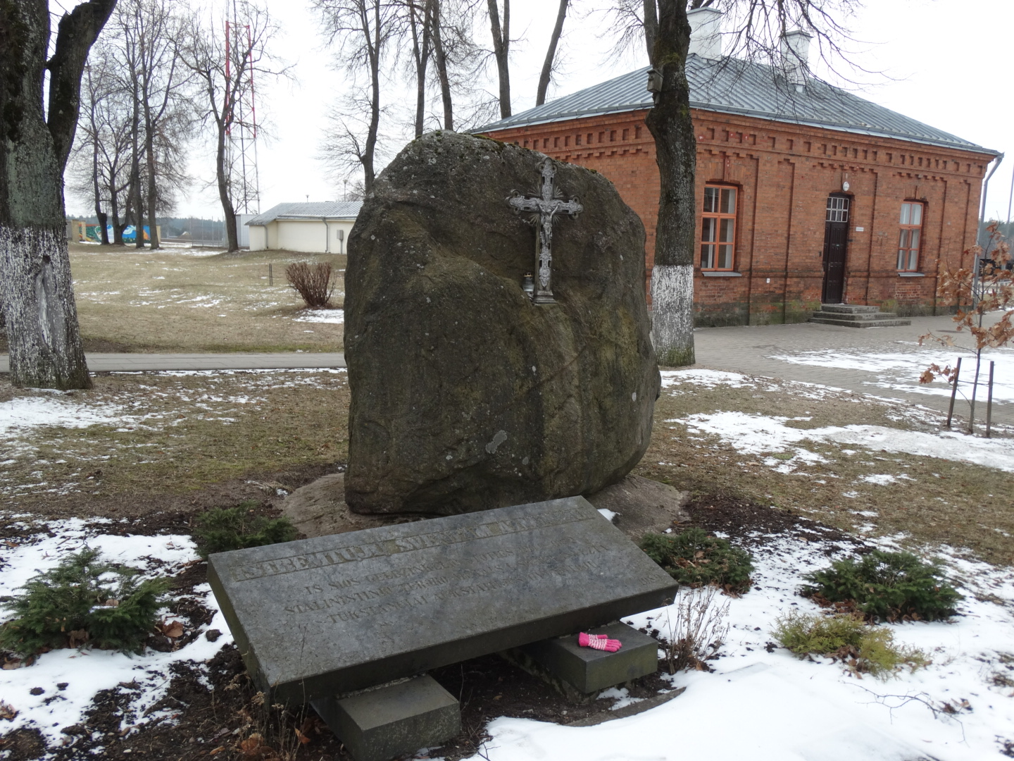 Memorial stone, railway station, Švenčionėliai, Lithuania